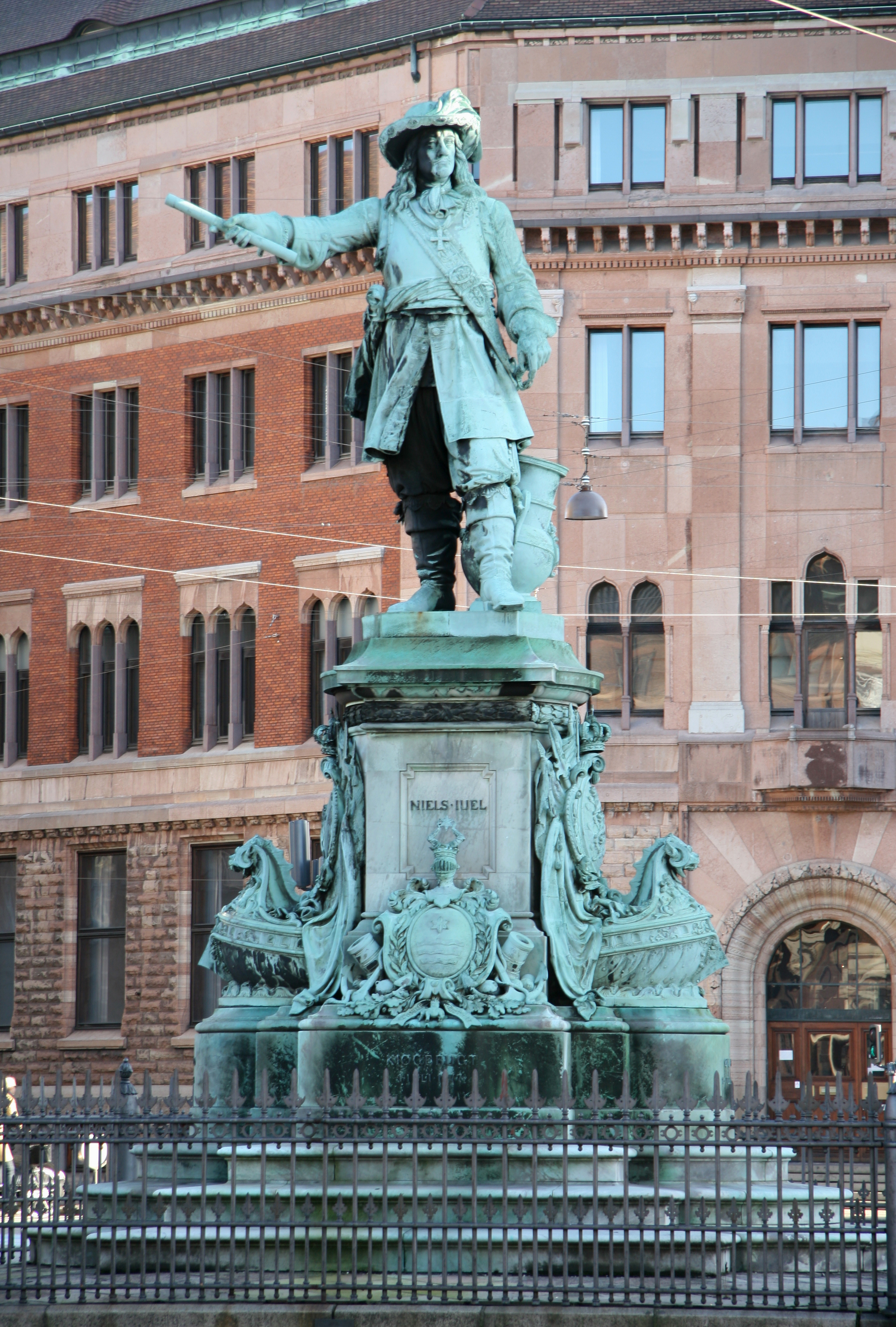 Statue of Niels Juel in Copenhagen. Erected in 1881 to mark the battle at Køge Bugt.